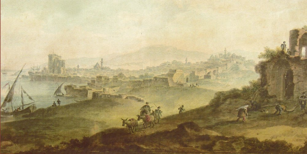 View of Baku.